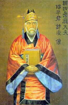 Portrait of Hur Jun during his later years.